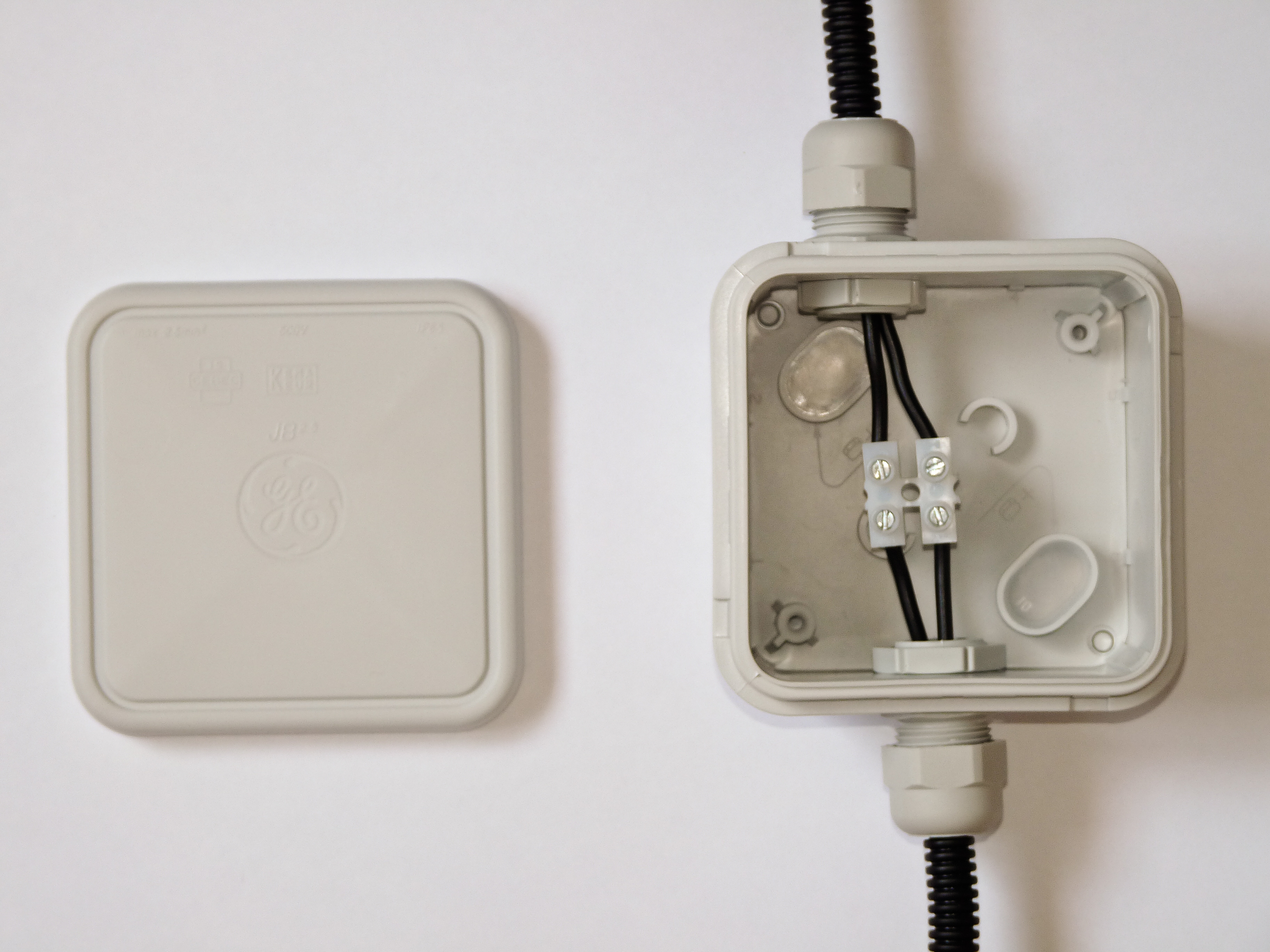 How to install wiring outdoors? - There should be reliable protection against water contacting metal parts (which are under voltage). To do this, the cable should be placed inside conduit, the connections should be made - using suitable electrical connection terminals - inside an IP65 (or higher) junction box and the joining between conduit and junction box should be hermetically sealed by using nuts with a rubber ring.